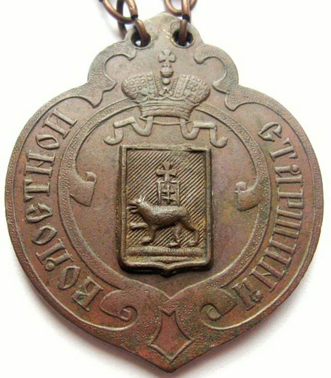 Знак Волостного старшины Пермской губернии до Революции 1917 года